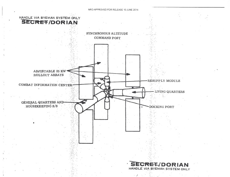 KH-10 DORIAN/Manned Orbiting Laboratory as possible orbital Command Post